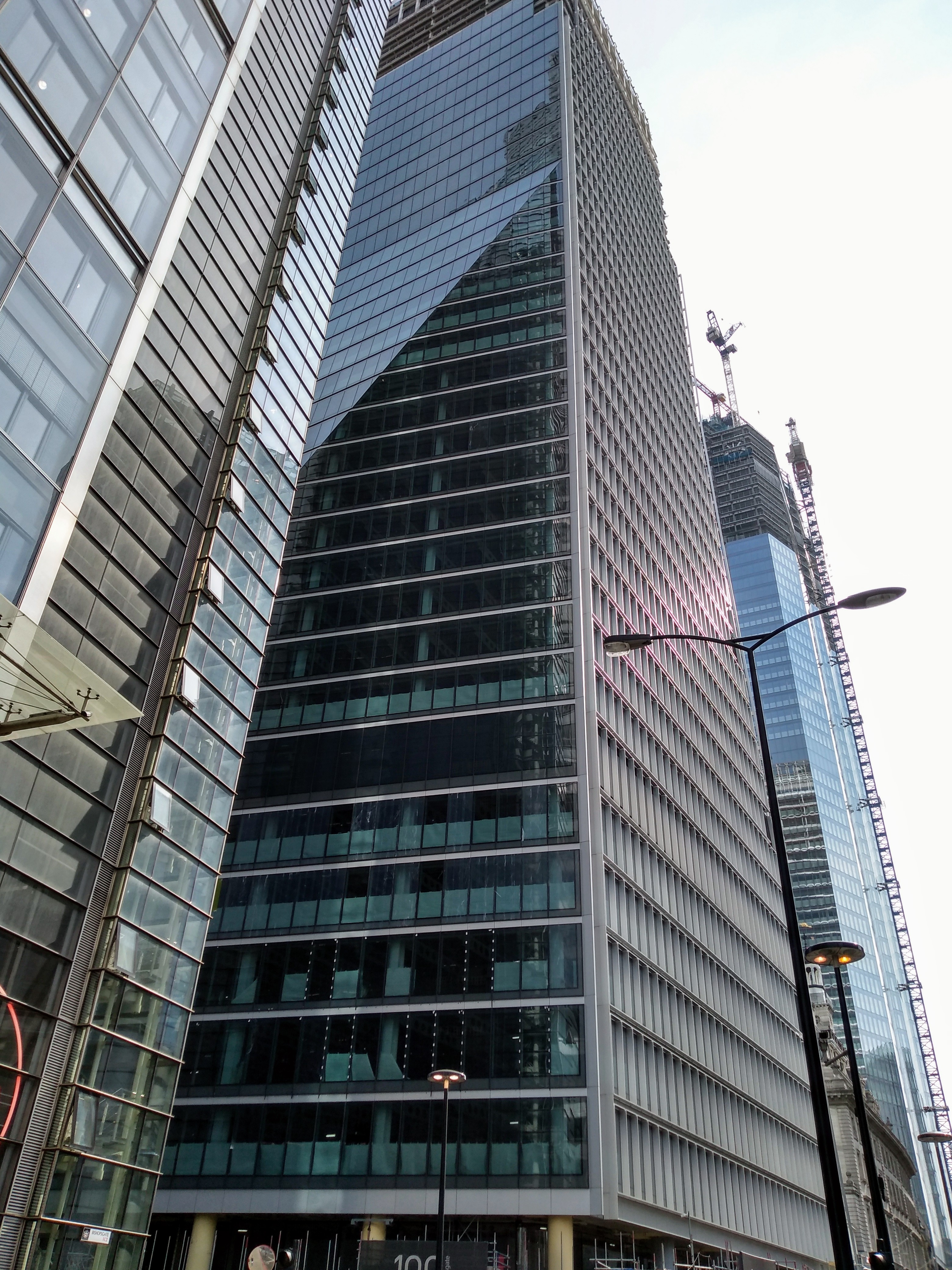 sky scraper in the city of London